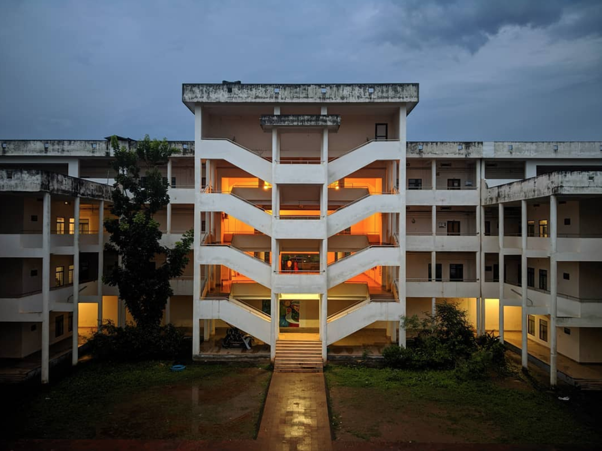 Central Stair Case of GEC Palakkad. The staircase inspires the logo for Invento, Life@GEC (a student organisation).